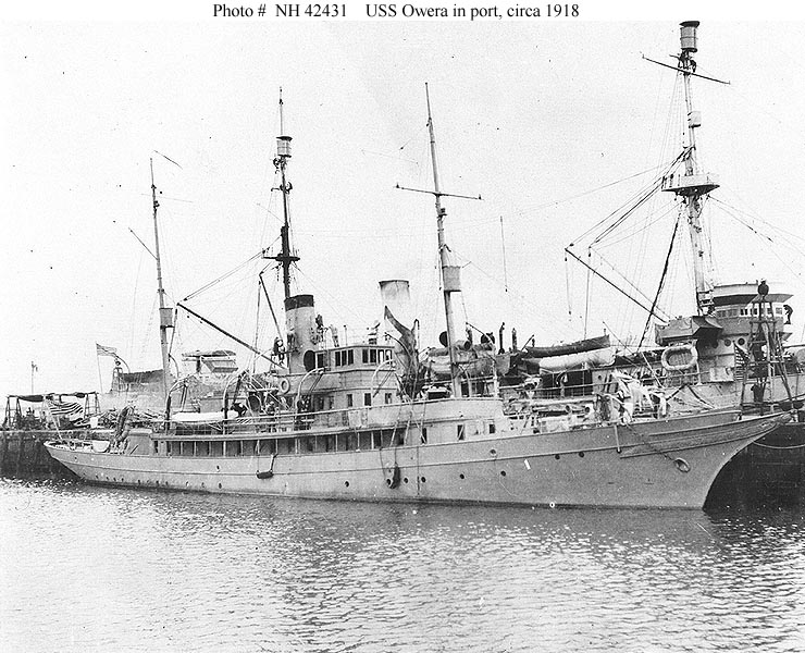 United States Navy patrol vessel US Owera (SP-167) in a United States East Coast port